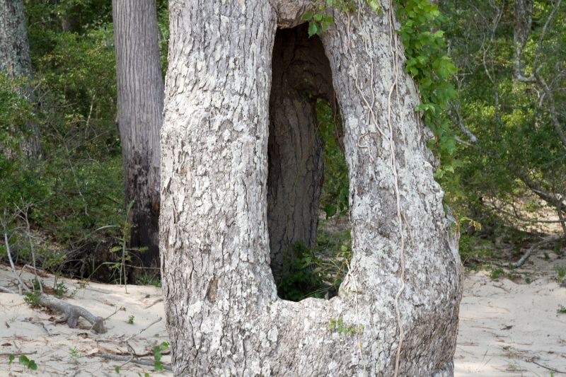 Croatan National Forest North Carolina